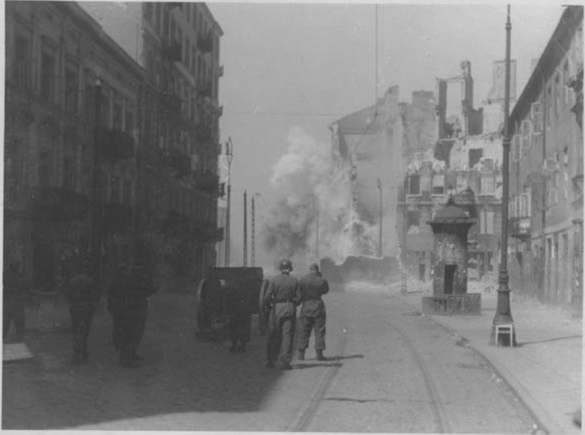 Stroop Report: a report written by Jürgen Stroop for Heinrich Himmler about liquidation of Warsaw Ghetto in May 1943.